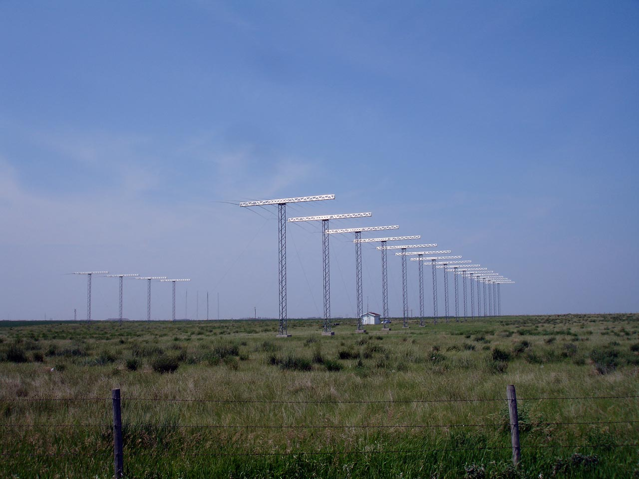 The Super Dual Auroral Radar Network (SuperDARN) site outside of Saskatoon, Saskatchewan, Canada.